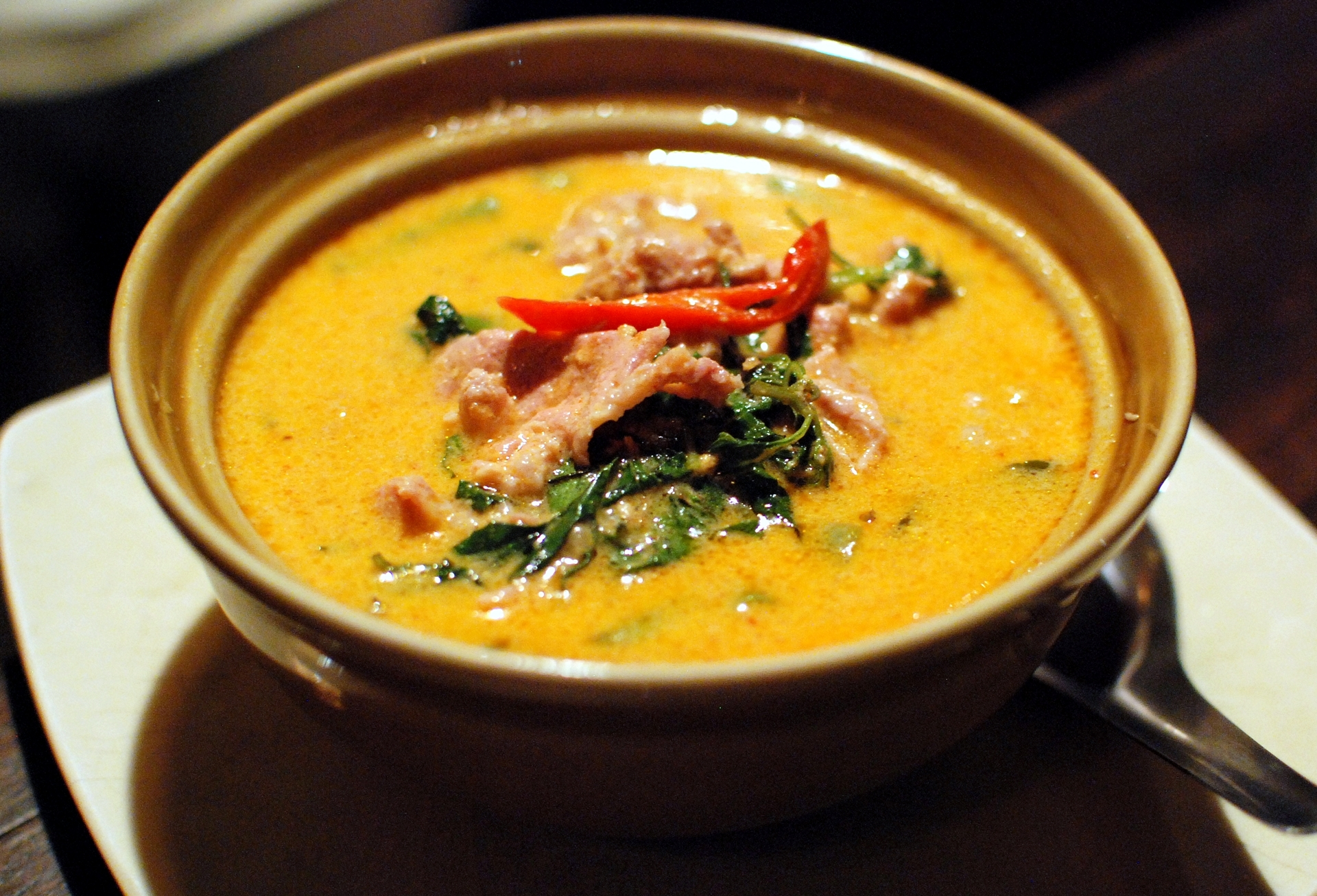 Kaeng phet mu (Thai script: แกงเผ็ดหมู): Thai red curry with pork.